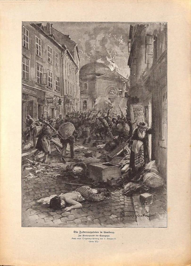 Jewish pogrom conducted by the soldiers of the Russian Imperial army on September 29, 1914 after the capture of Lviv.